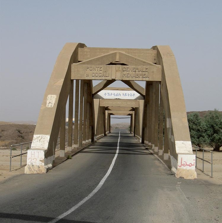 The Menabrea bridge in Dògali, Eritrea.